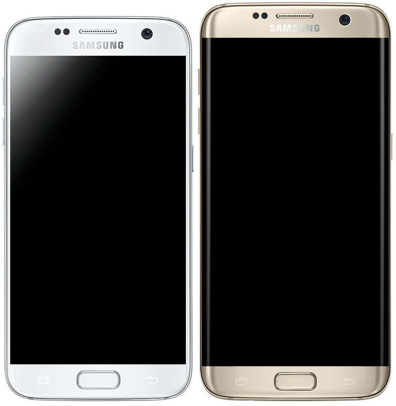 Samsung Galaxy S7 and S7 Edge render